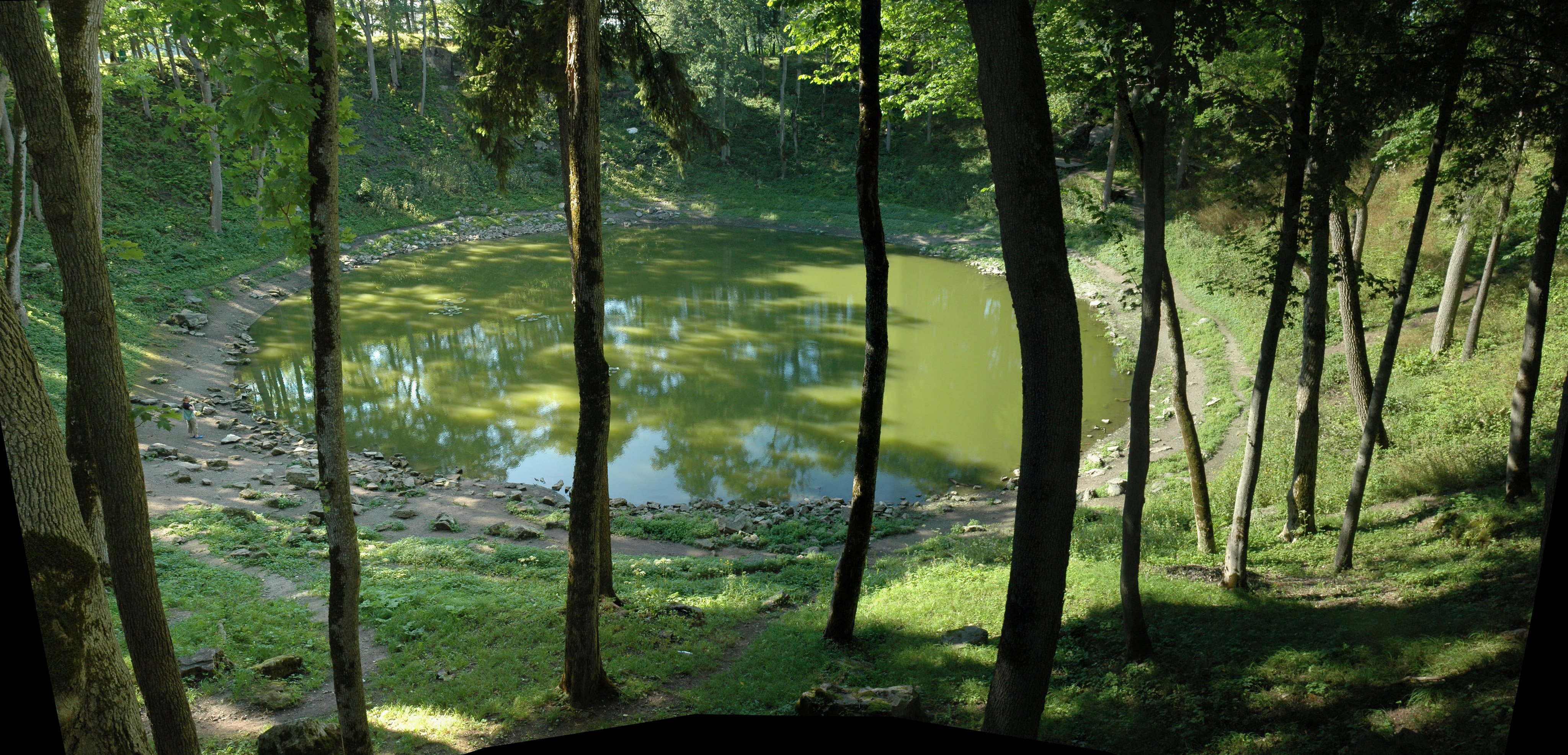 Panorama of Kaali crater on Saaremaa, Estonia. Shot on August 7th 2007 with D70s, stitched with PTGUI.